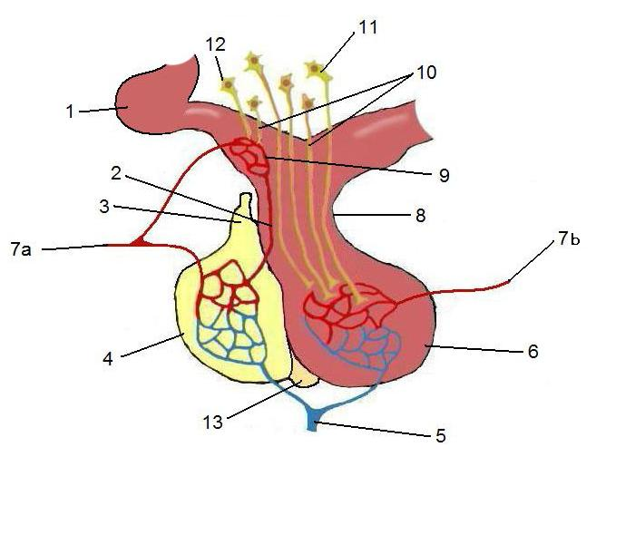 pituitary gland and vessels 1:optic chiasm:視交叉, 2:hypophyseal portal vein:下垂体門脈, 3:pars tuberalis:隆起部, 4:pars distalis:前葉, 5:hypophyseal vein:下垂体静脈, 6:pars nervosa:後葉, 7a:superior hypophyseal artery:上下垂体動脈, 7b:inferior hypophyseal artery:下下垂体動脈, 8:infundibular stem:漏斗茎, 9:primary capillary plexus:一次毛細血管網, 10:neurosecretory cell:神経分泌細胞, 11:paraventricular nucleus:室傍核, 12:supraoptic nucleus:視索上核, 13:pars intermedia:中葉